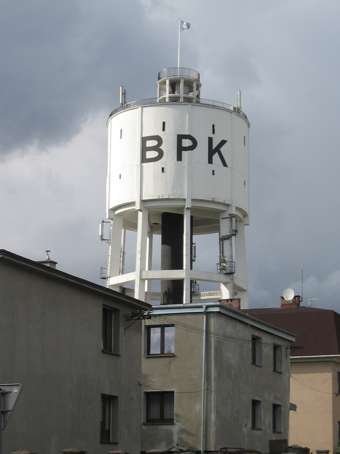 Water tower from 1936 in Bytom, Oświęcimska street, Poland, cultural heritage monument (A/472/2016 in 16.03.2016).